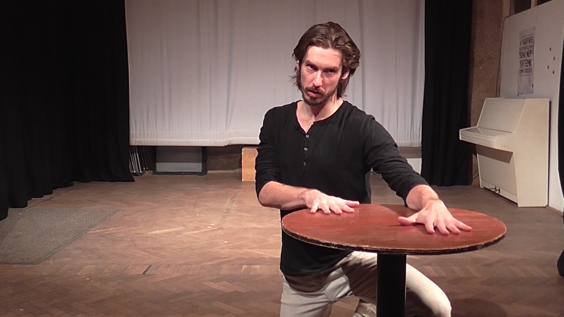 Snap from Imre Vass performance video